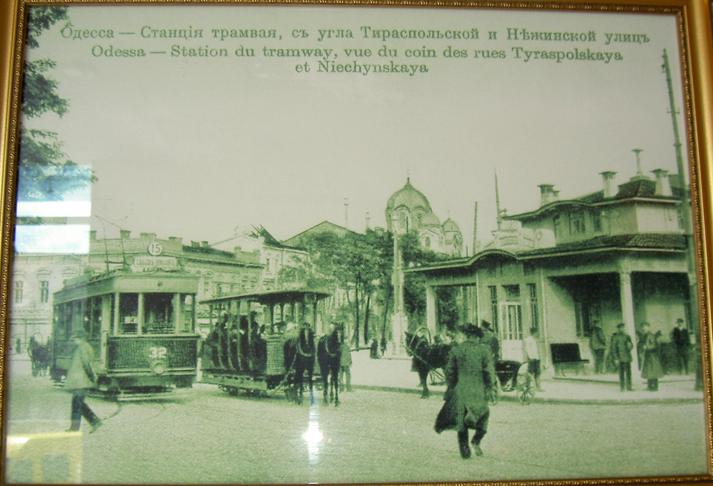 Tram station near Tiraspolskaya and Nejinskaya crossing